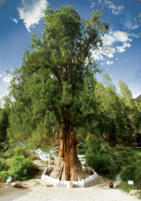 Cupressus gigantea, Bajie, Nyingchi, Tibet.